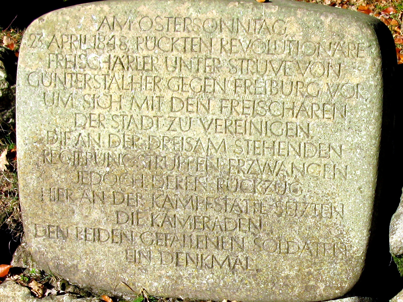 Monument for the victims of the revolution of Baden in Freiburg-Günterstal